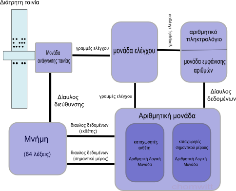 Z1, Z3 architecture